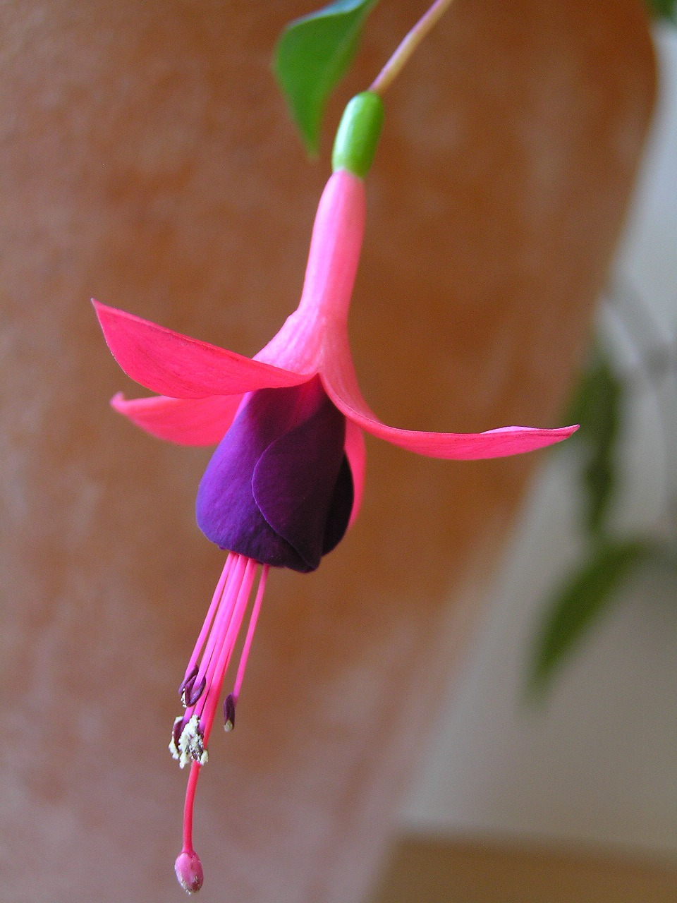 Fuchsia flower